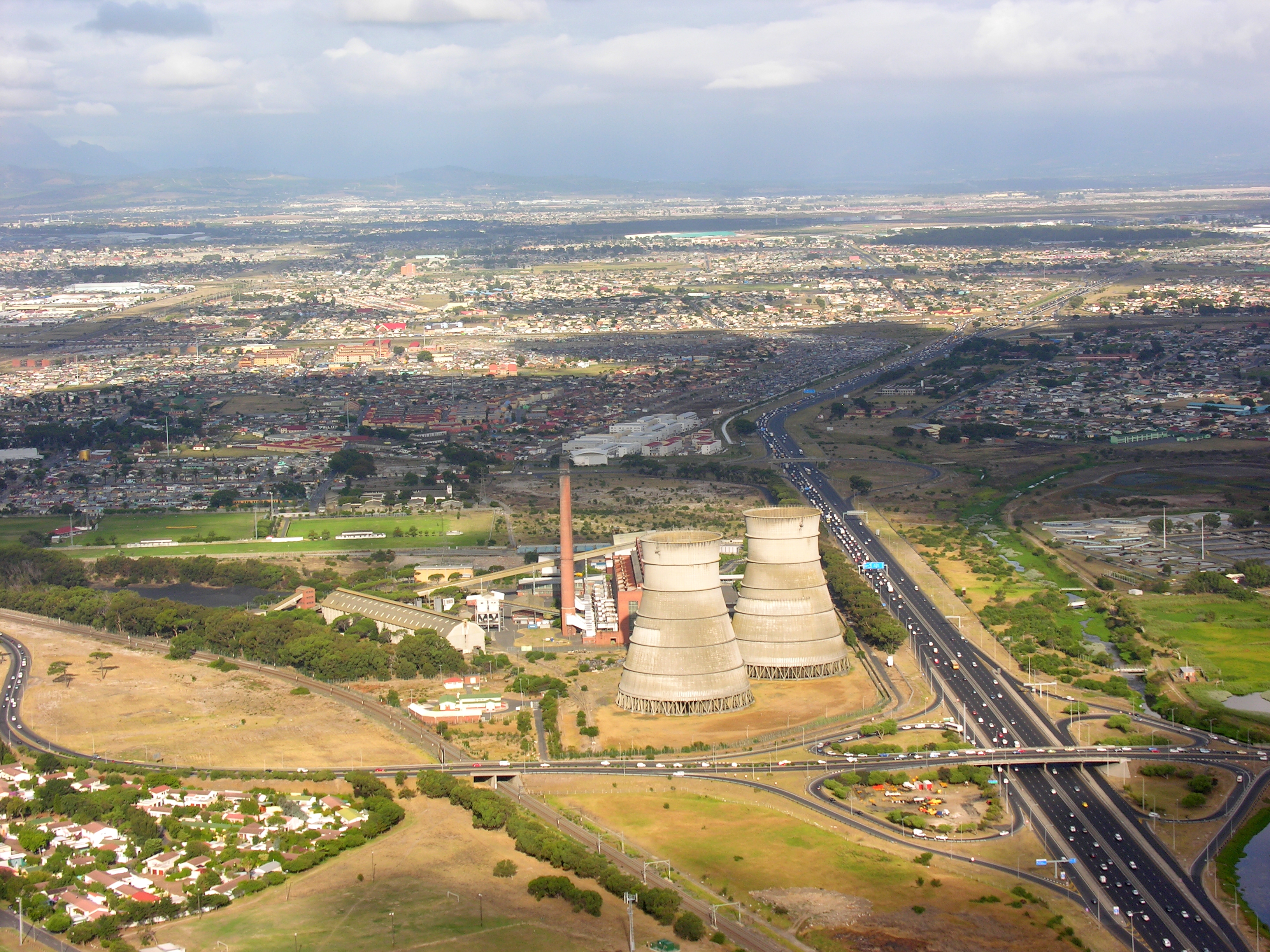 South Africa, Aerial views around Cape Town. For exact location see geocode.